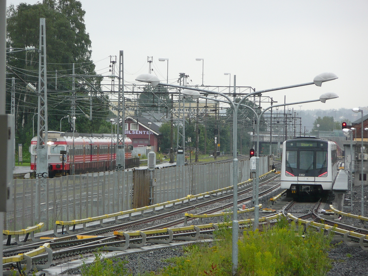 NSB Class 69 (red) and Oslo Metro MX3000 (white) in Oslo, Norway